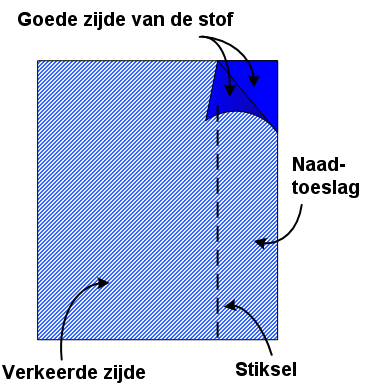 Plain seams with Dutch explanation. This is a derivative of